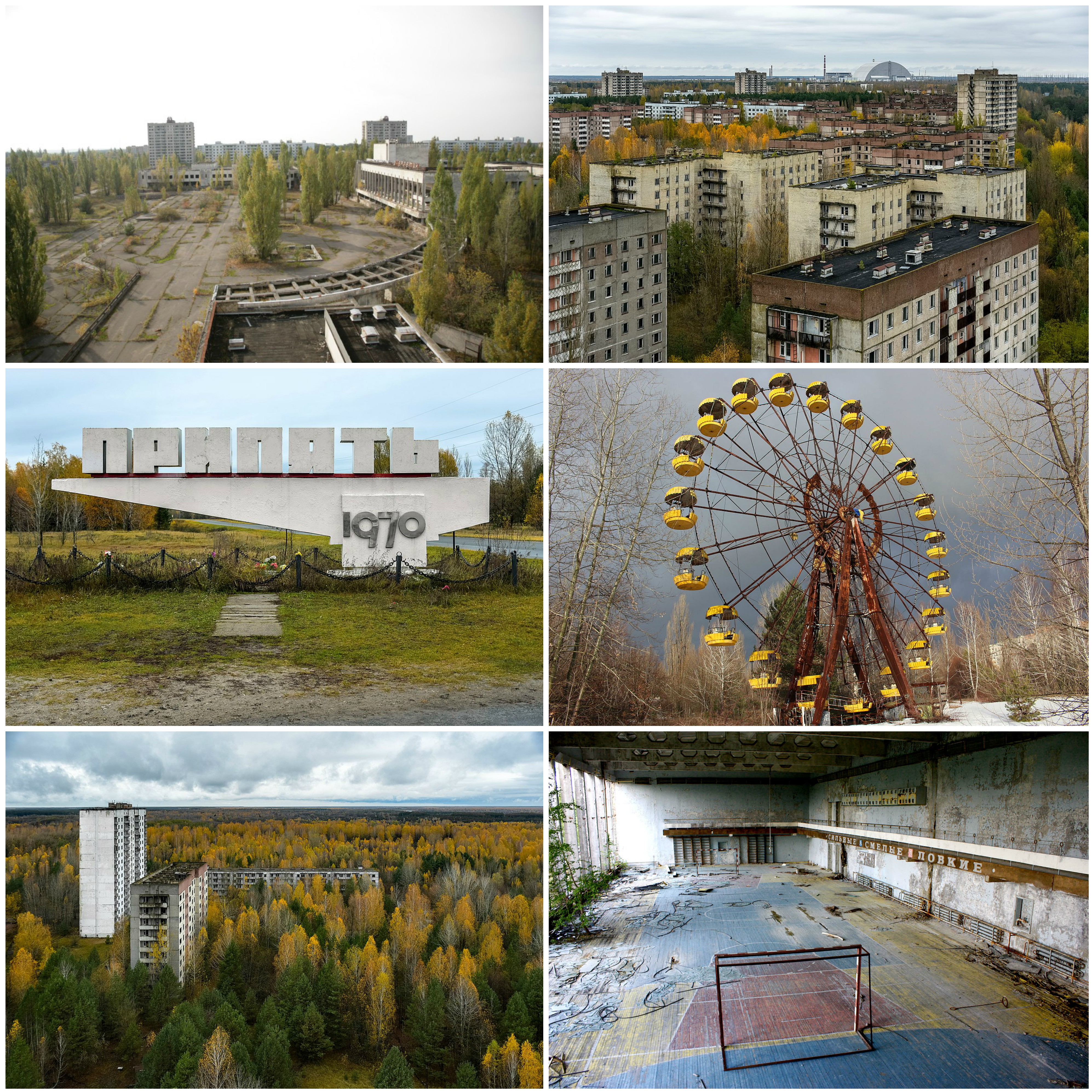 Montage of Pripyat